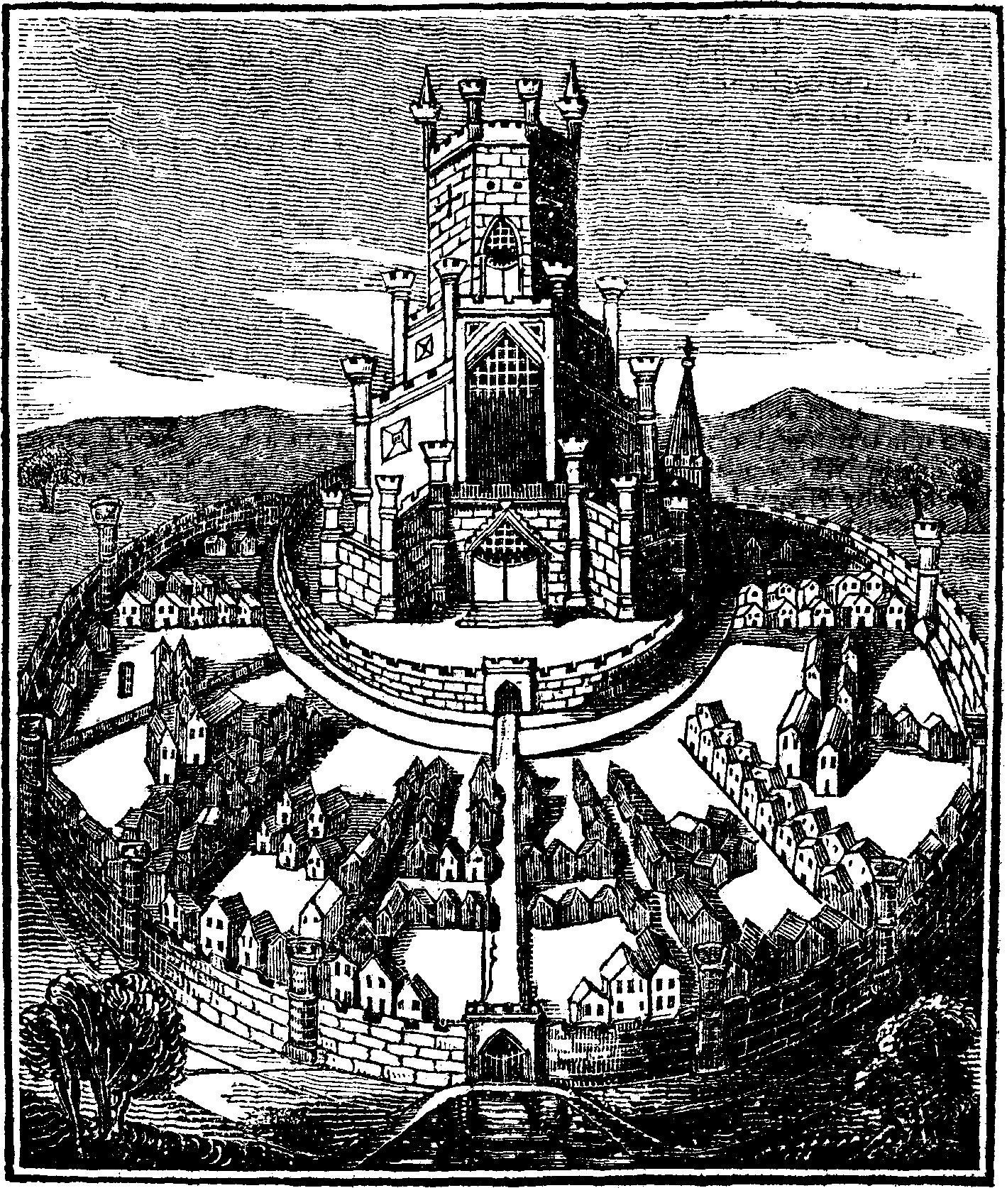 A woodblock print inspiring or inspired by the inset "An East View of the City, & Castle of Old Sarum", presenting a highly fanciful image of Sub-Roman Old Sarum in F. Merryweather's 1761 broadsheet An Exact Plan and Section of Old Sarum: also, The East View of that antient City as it then stood, (before its Reduction) in 553.